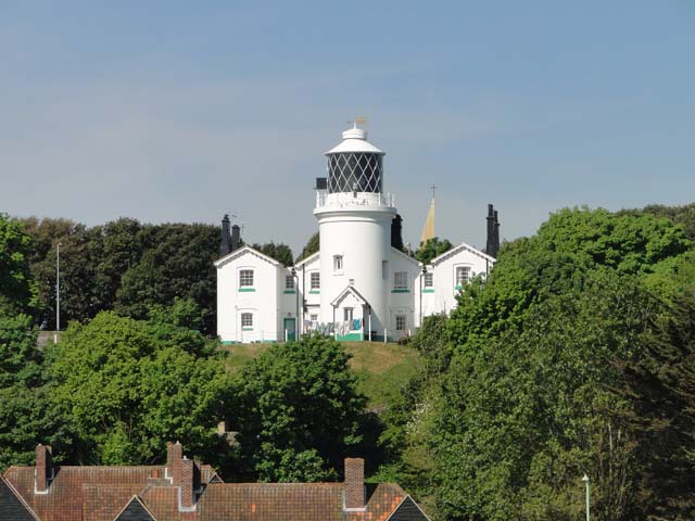 Lowestoft Lighthouse from the promenade